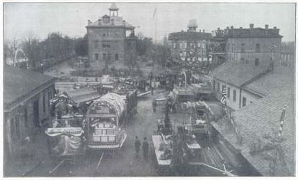 Cotton States and International Exposition, 1895